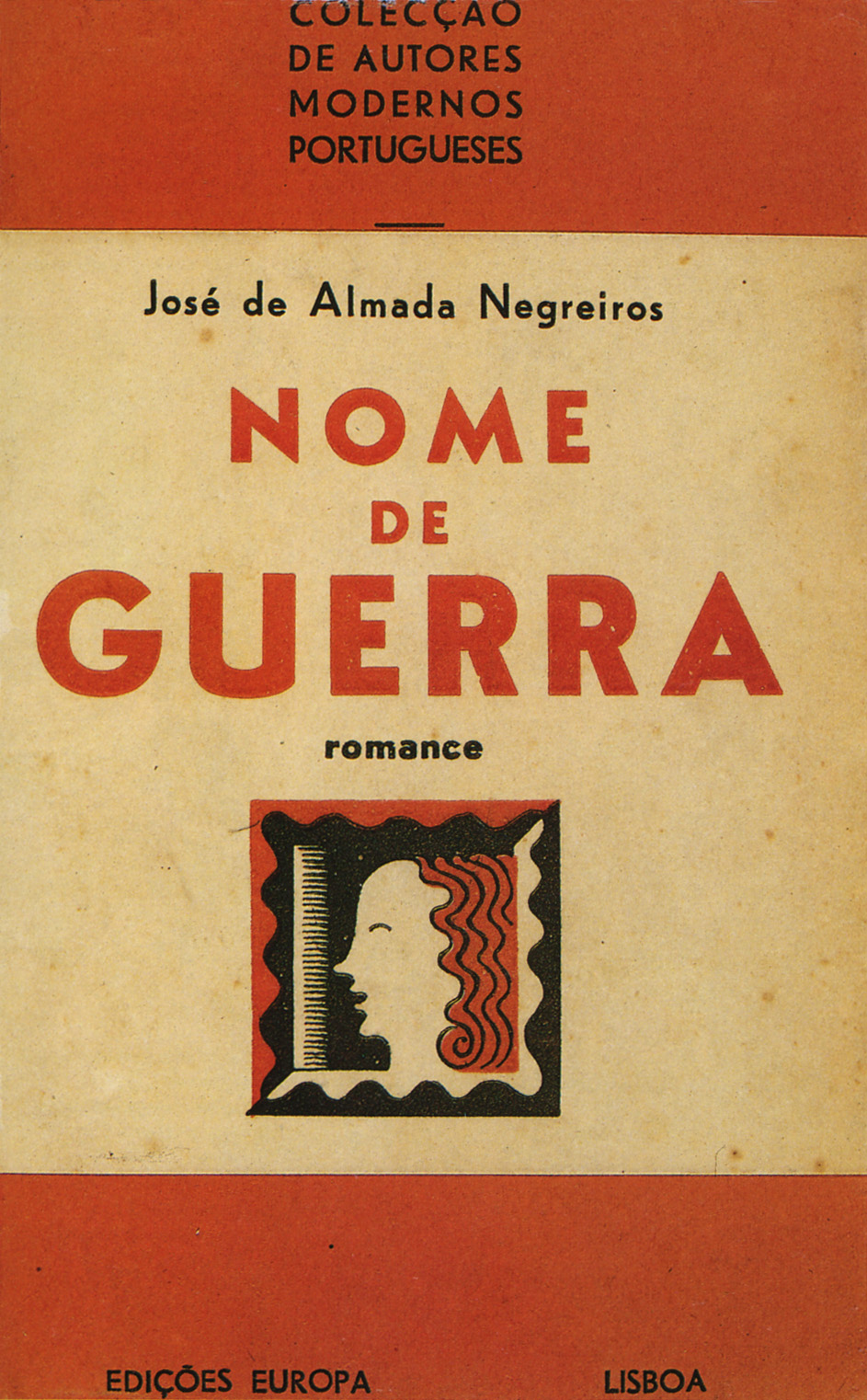 Almada Negreiros, Nome de Guerra, 1938 (book cover)